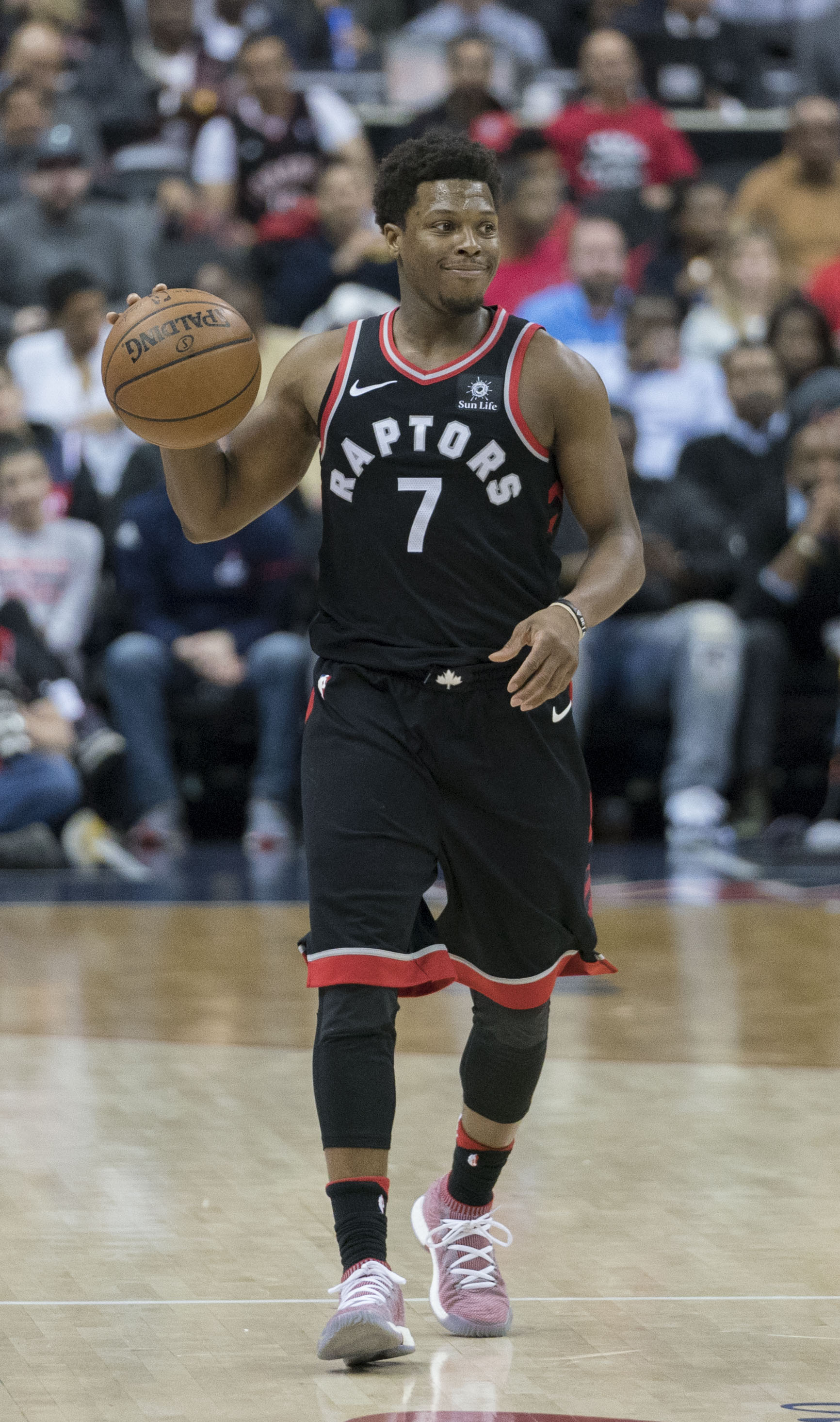 Raptors at Wizards 3/2/18